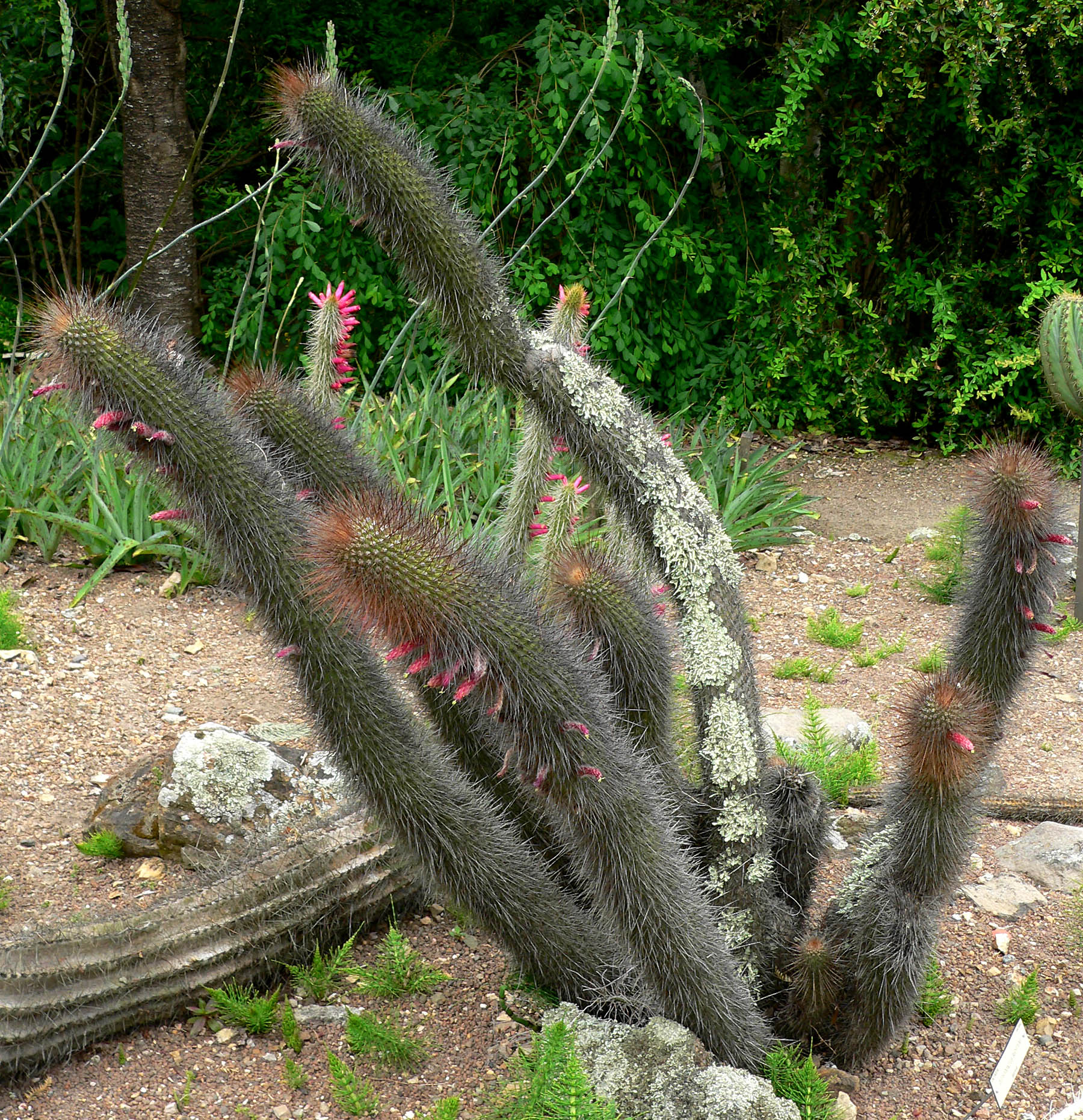 Photo of Cleistocactus buchtienii at the University of California Botanical Garden